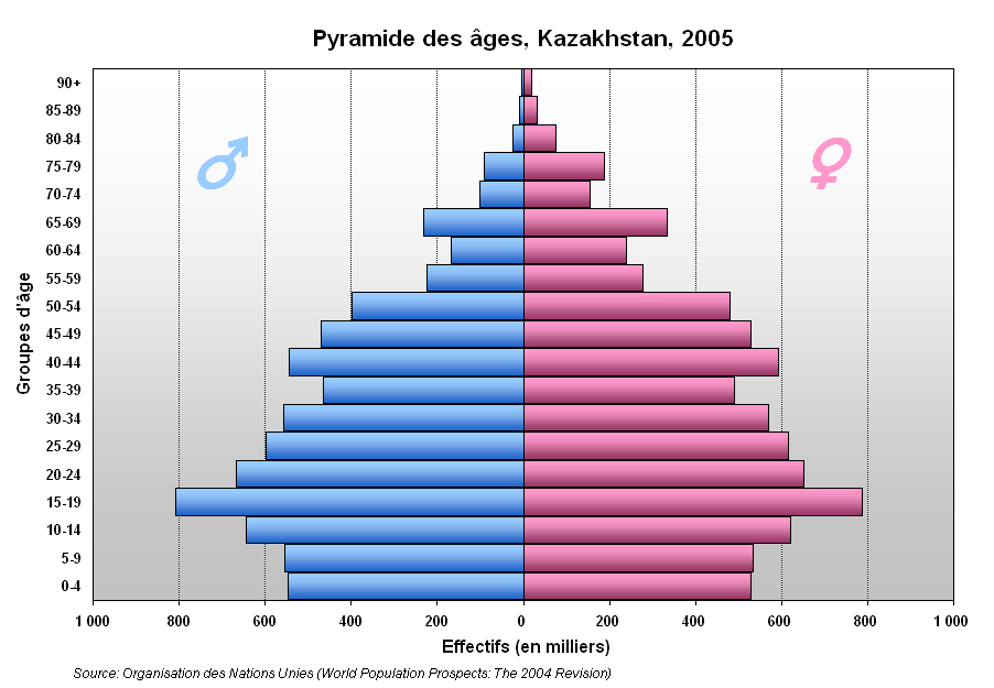 Kazakhstan Population pyramid, 2005, en français